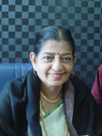 Singer